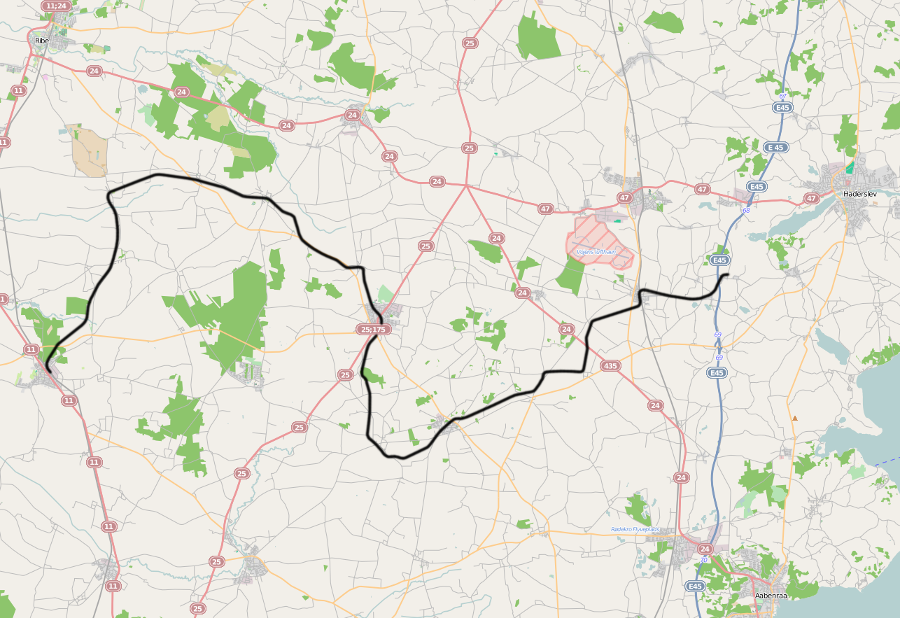 Railway line Ustrup - Skærbæk